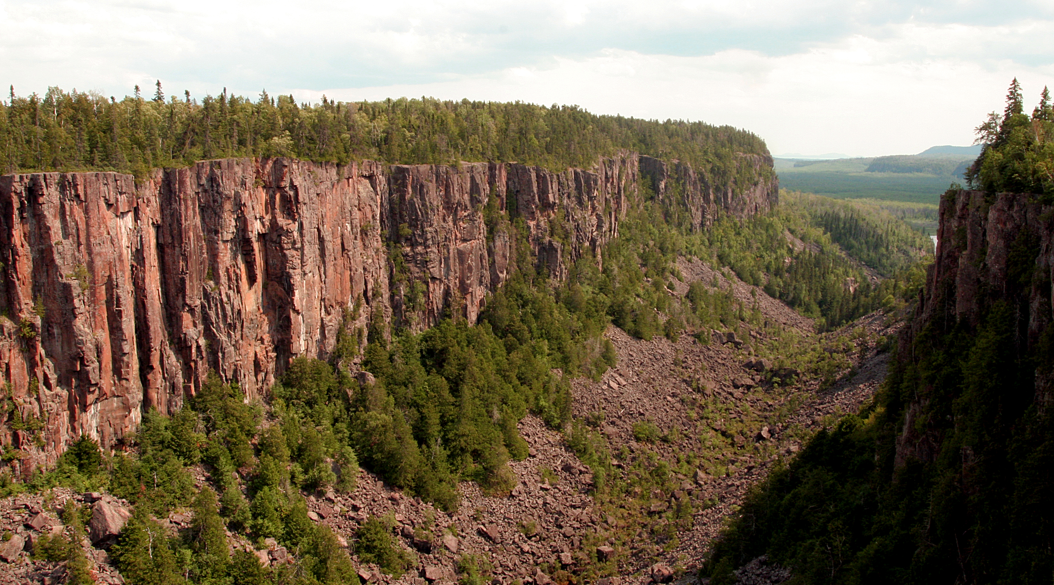 Ouimet Canyon--the Length